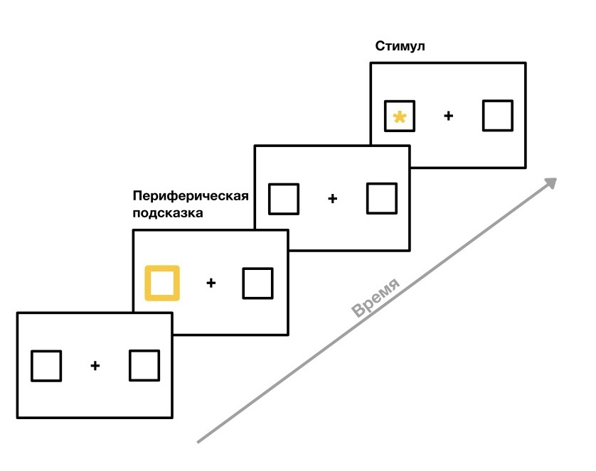 Схема, в которой был получен феномен торможения возврата